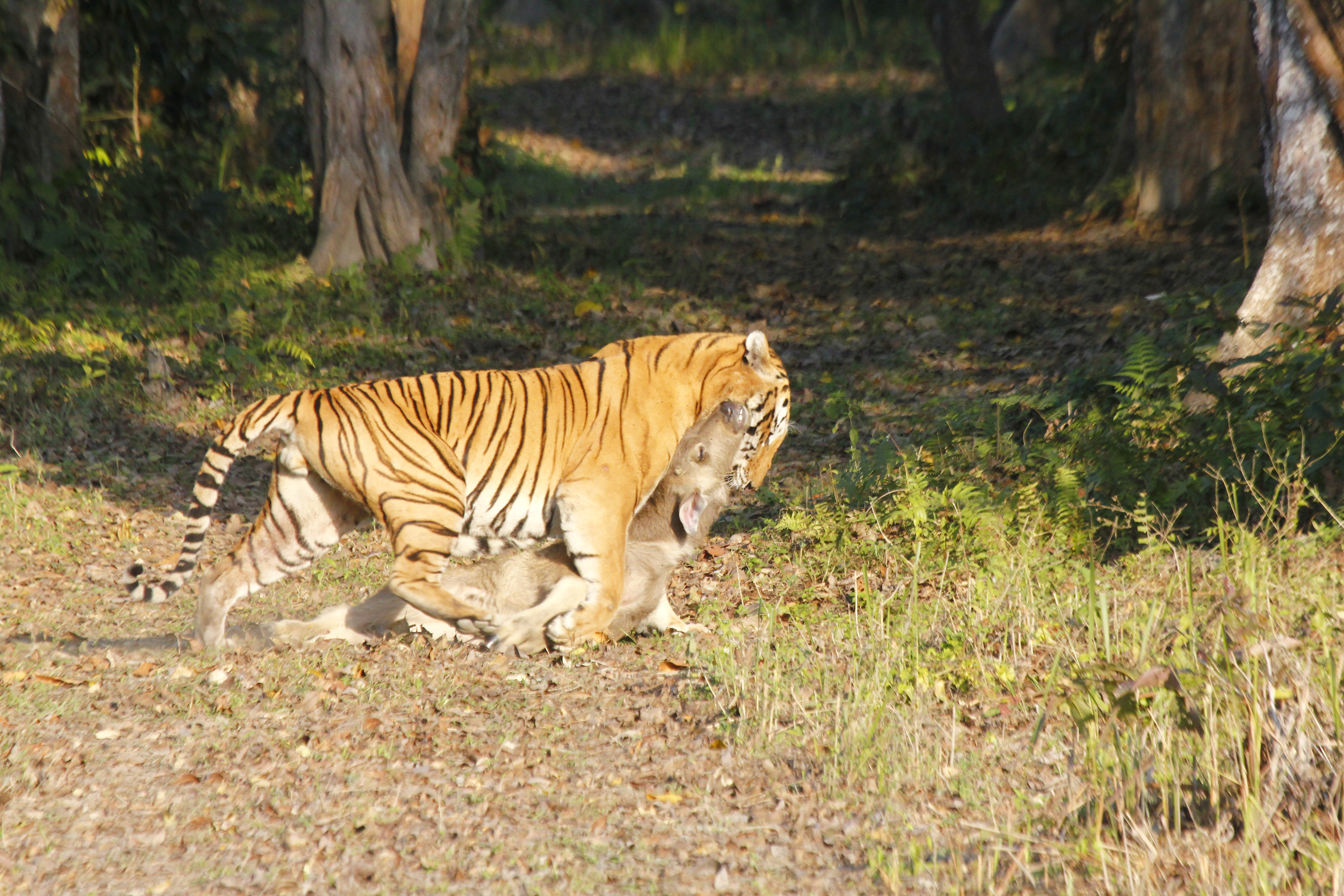 A Royal Bengal tiger dragging his prey, a Wild Water Buffalo calf, across a track in core area of Kaziranga National Park, Assam, India